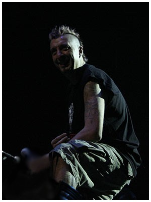 Ricardo Delgado of the Work, better known by his nickname 'pipi', was known to join the group and The Ska-p Locos, was a 15th November 1971 in Belmonte, Madrid. Discography: Ska-p (pipi not part of Ska-p for the first album released in 1994) 1996: 'The waltz of the worker' {El vals del obrero} 1998: 'Eurosystem' {Eurosis} 2001: 'Eskoria Planet' {Planeta Eskoria} 2002: 'who did the voice' {Que corra la voz} 2002: 'uncontrollable' (Cd + Dvd) {Incontrolable} Discography: The Locos 2006: 'cage of crickets' {Jaula de grillos} 2008: 'inexhaustible energy' {Energía Inagotable }